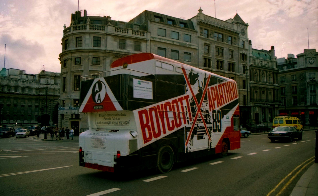 From a very old snap box, this 1989 beauty came out. Much happened in Germany and Europe that very same year. The end of Apartheid waited a bit longer boycott campaigners had the final word against racism. Apartheid is no more in South Africa.